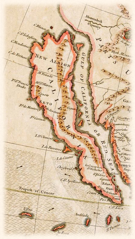 Map of California as an island. Detail form "A Map of North America with the European Settlements & whatever else is remarkable in ye West Indies from the latest and best observations." 1745, by Richard William Seale (1703 - 1762), London. Copper-engraved, hand-colored in outline and partially in wash. Source: "The Cooper Collections" (uploader's private collection). Digital image by uploader, Centpacrr